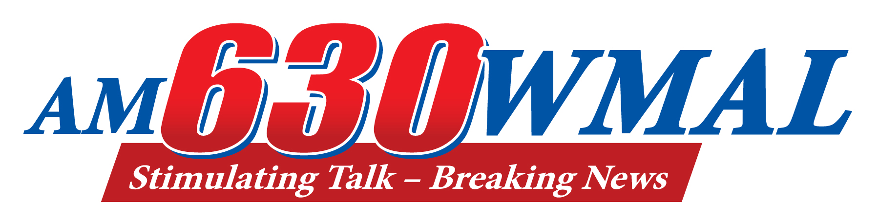 Former logo of the radio station WMAL used between 2009 and 2011.